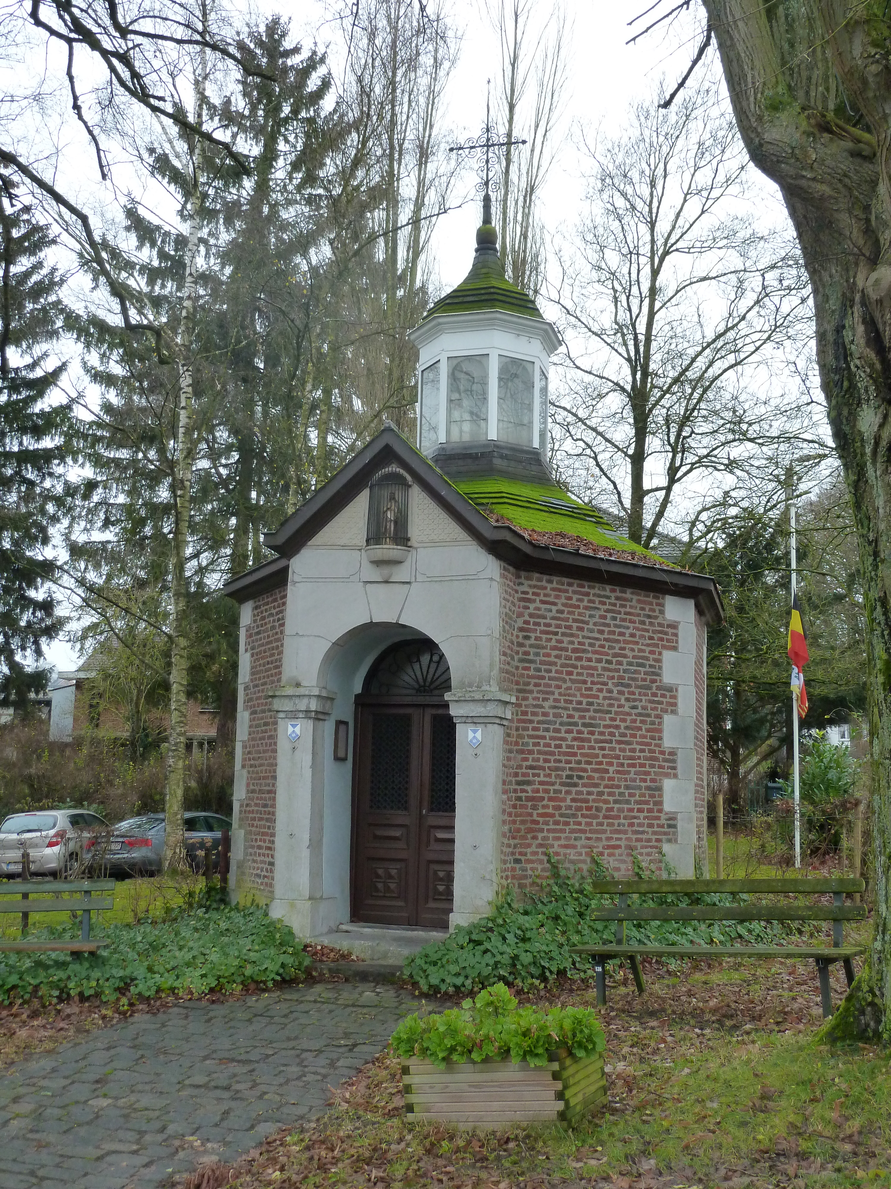 Chapelle Sainte Agathe, Chaineux, Herve, Belgium